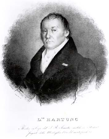 Lithography of Christoph Hartung